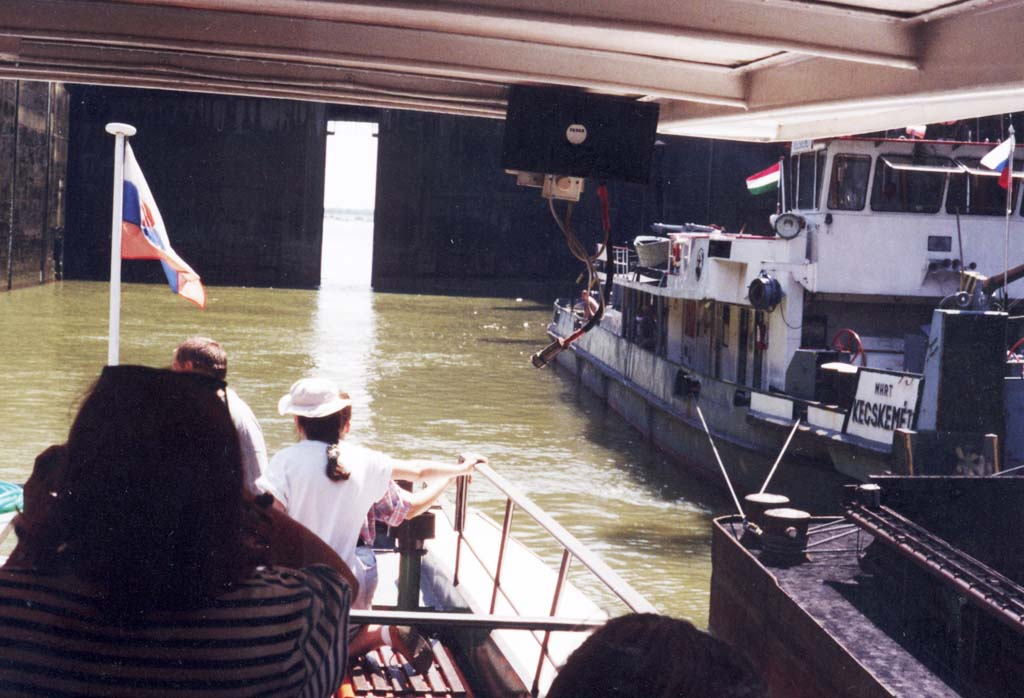 Gabčíkovo sluice, Slovakia. Kecskemét (ship, 1961) 1200 HP motor tug boat (Middle-Danube class)[1]